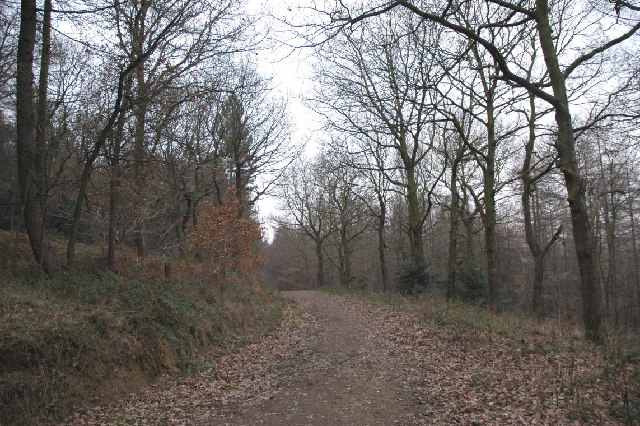 The track through Bagger Wood. A fairly large Woodland Trust wood near Hood Hill. There is considerable diversity of tree species throughout the wood, including extensive areas of conifers.